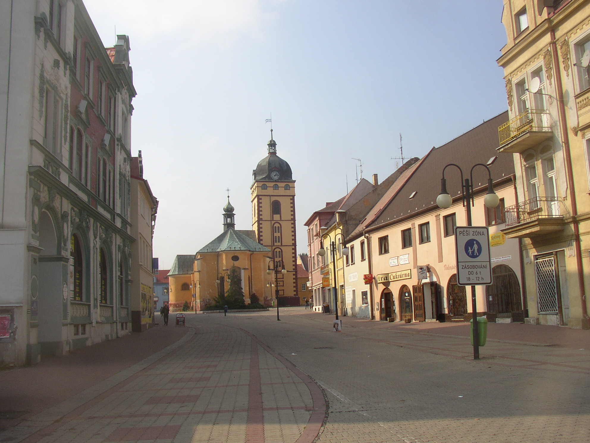 Jirkov, Czech Republic. A view through Kostelní Street towards Town Tower and St Giles Church.